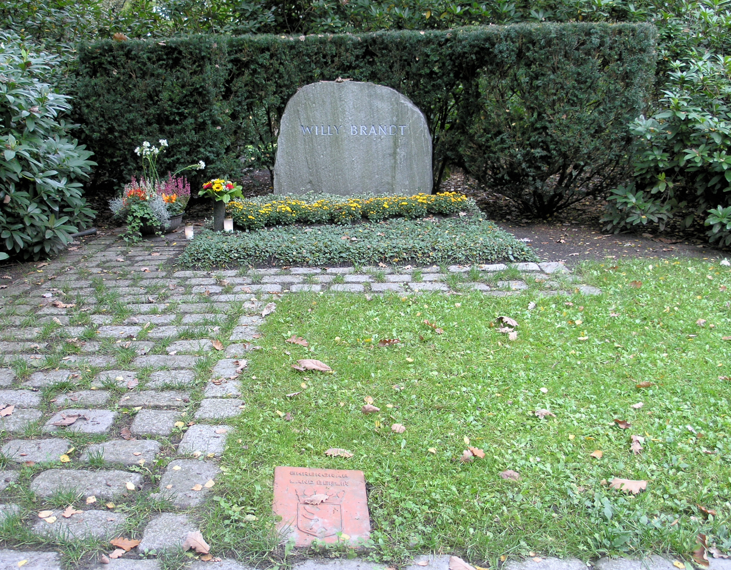 "Ehrengrab" (grave of honor), Willy Brandt, Potsdamer Chaussee 75, Berlin-Nikolassee, Germany